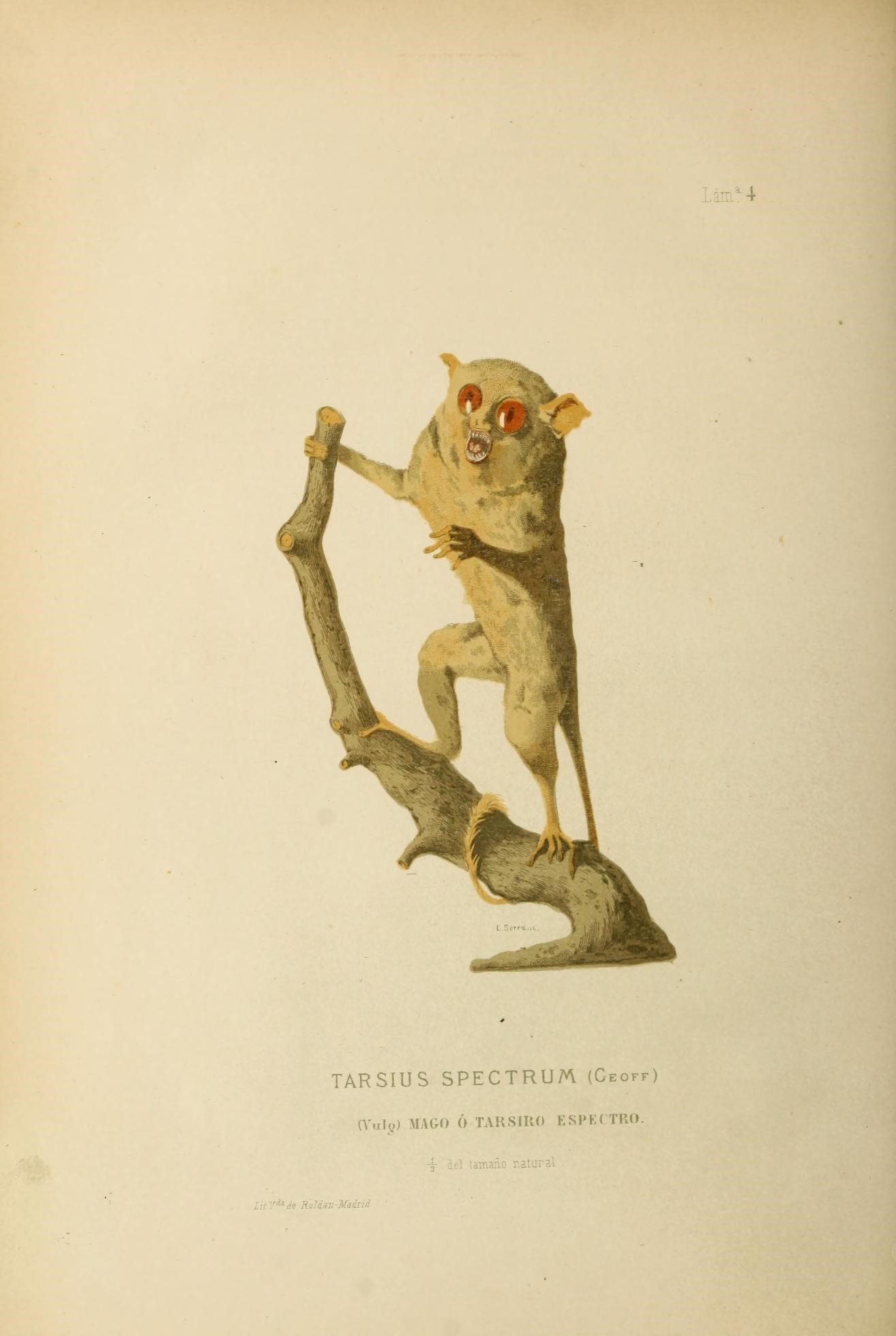 TARSIUS SPECTRUM (Ceoff) a'uly) íkíAOO Ó TAKSIRO ESPECTRO. -f del tatnaño natural de Kalis.Ti-'Maivin